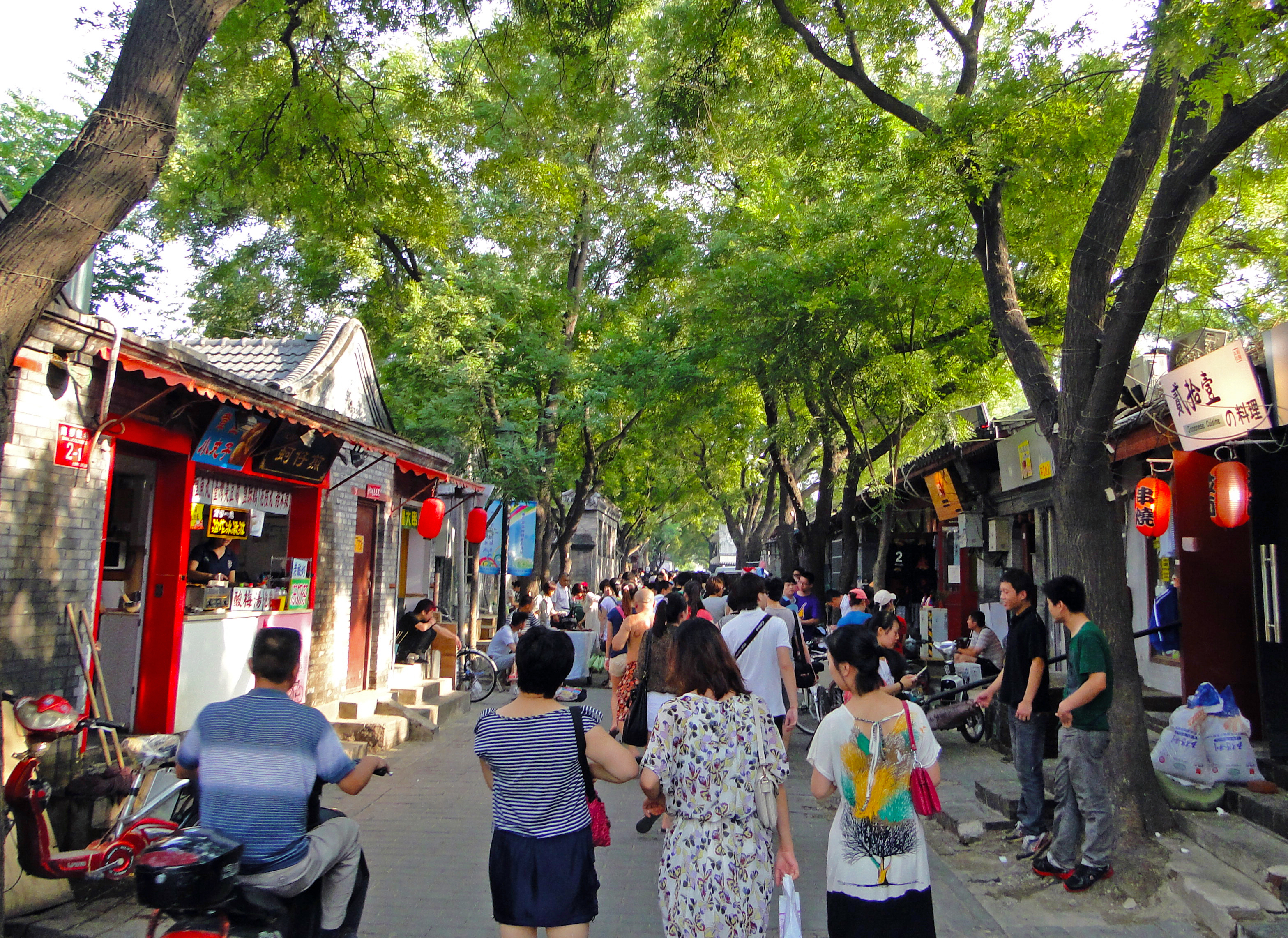 Nanluoguxiang Road, Beijing